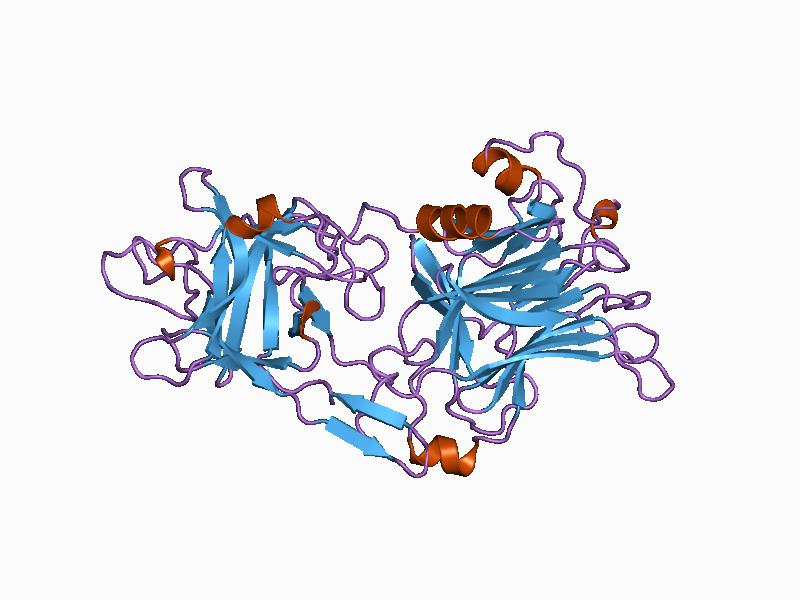 Cartoon representation of the molecular structure of protein registered with 1a8d code.